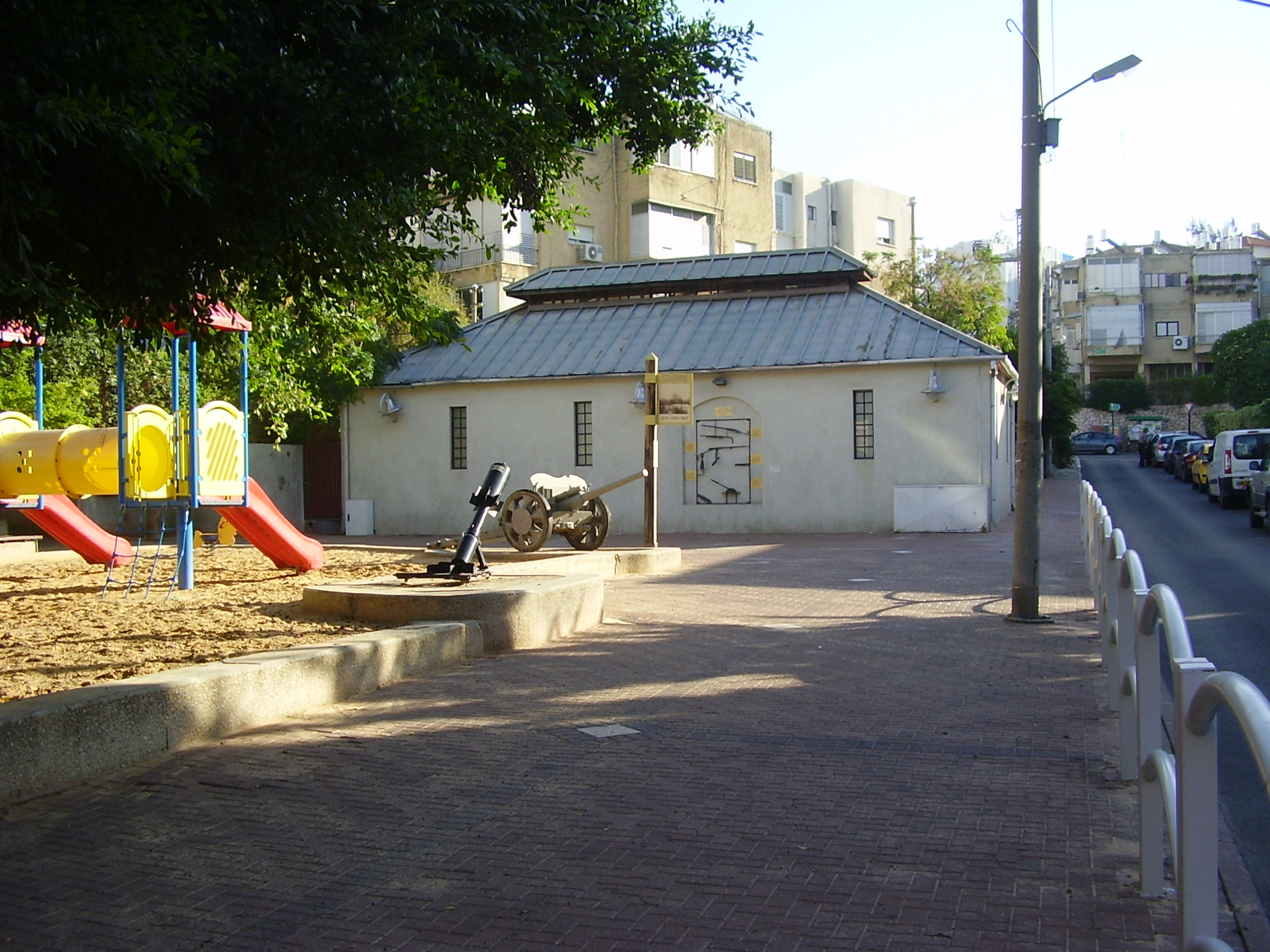 taas garden in givatayim מכון המים וגן תע"ש ברחוב השומר בגבעתיים